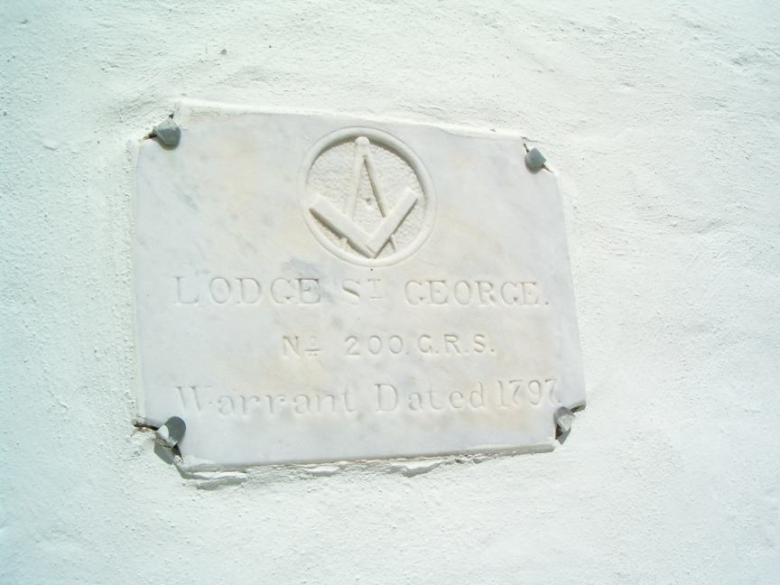 A Plaque of the Masonic Lodge which rents the State House, the former seat of Bermuda's Parliament. Place: St. George's, Bermuda